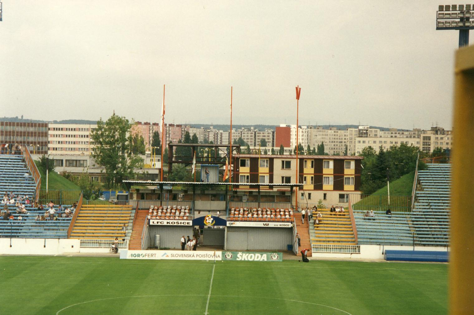 The Všešportový areál! Stadium of 1.FC Kosice.